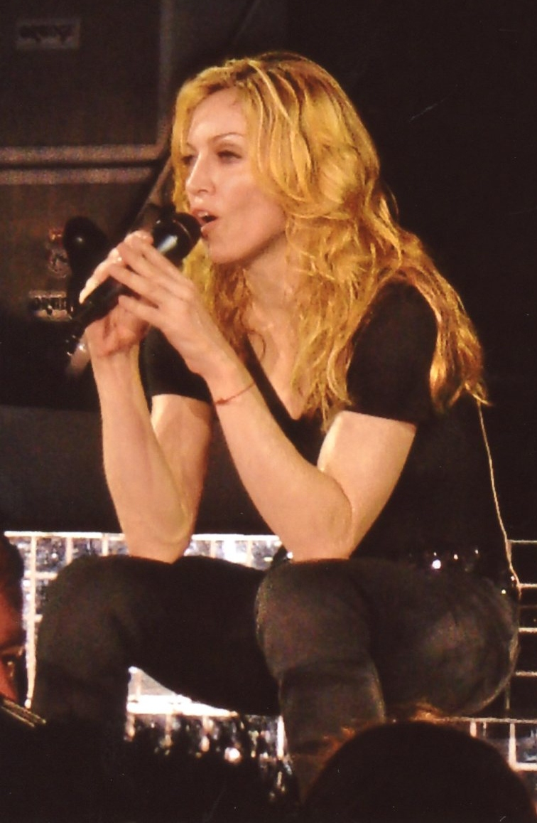 Madonna performing "Drowned World/Substitute for Love" during her concert at the Wembley Arena in London, as part of her Confessions Tour on August 12, 2006.